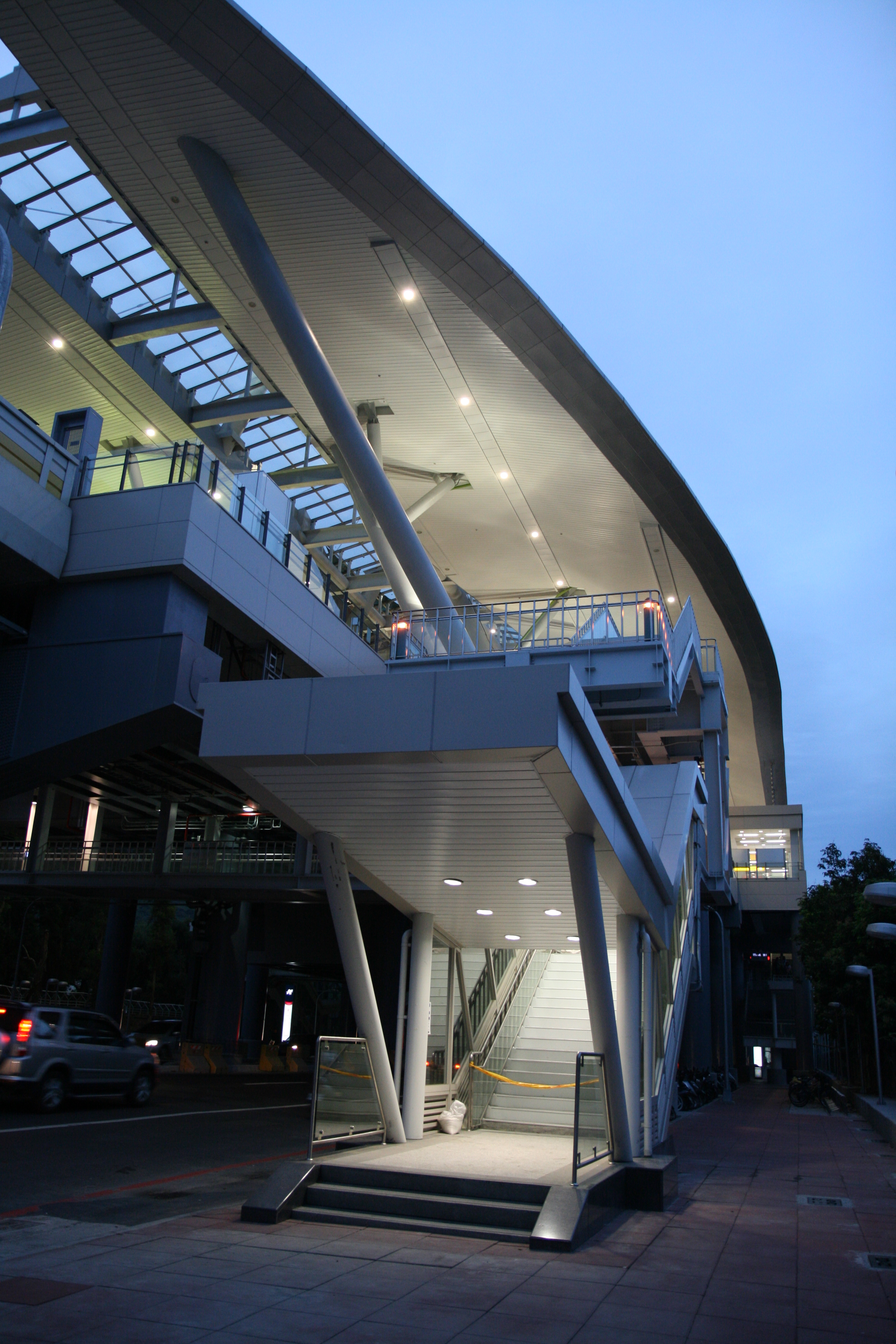 KRTC World Games Station